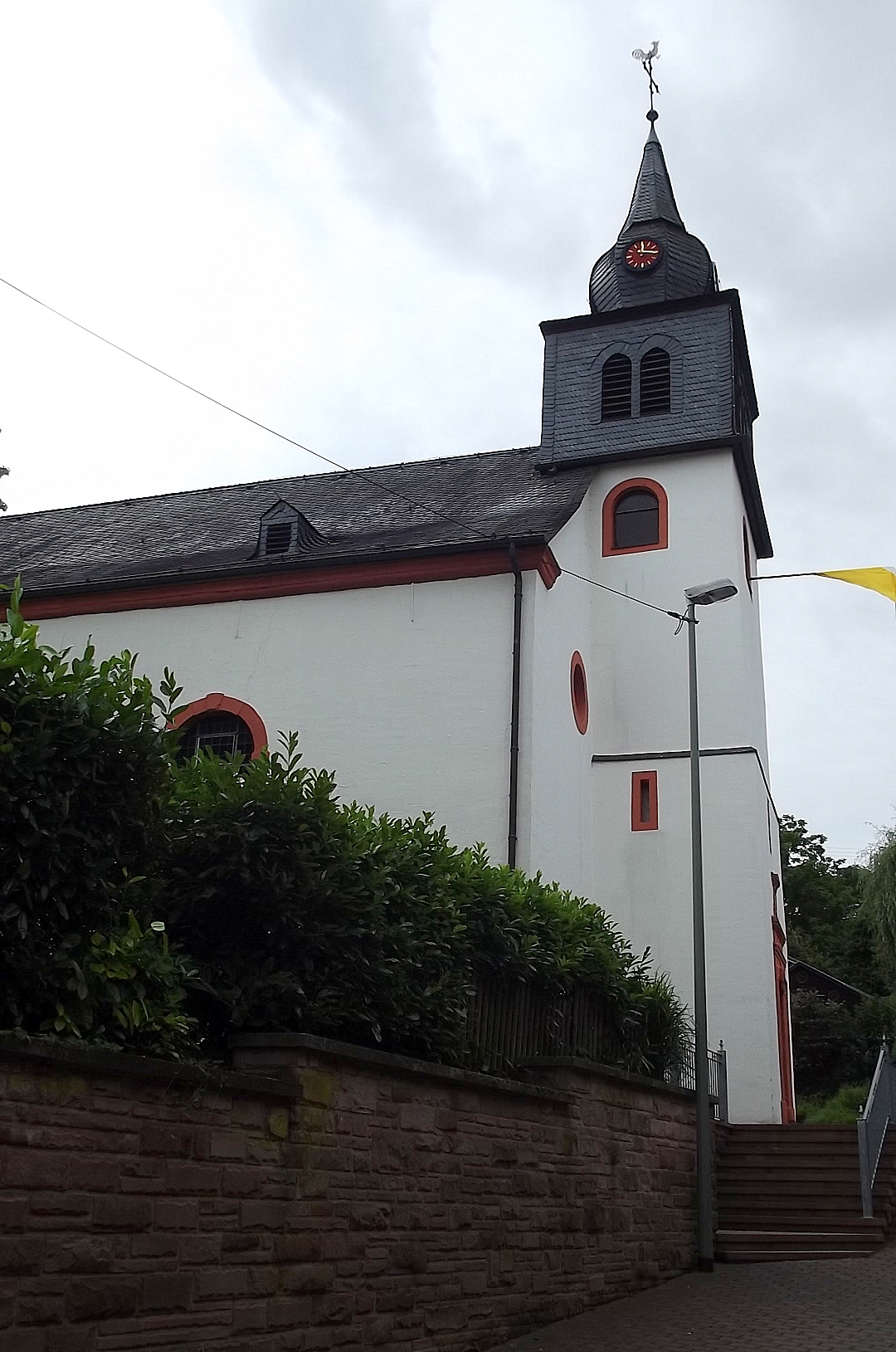 Exterior of the roman catholic church in Büdingen, Saarland, Germany